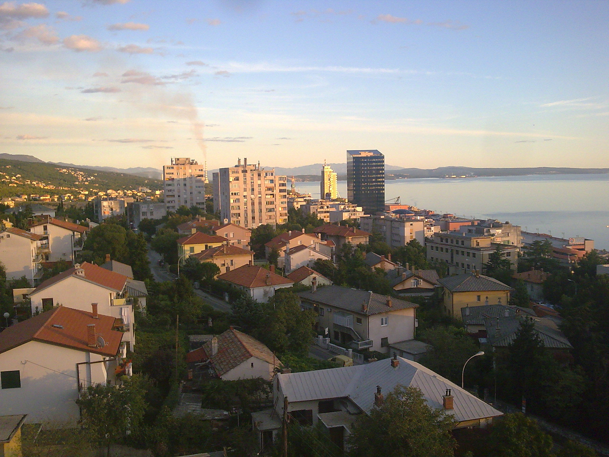 Local Committee Krimeja, City of Rijeka, Croatia.